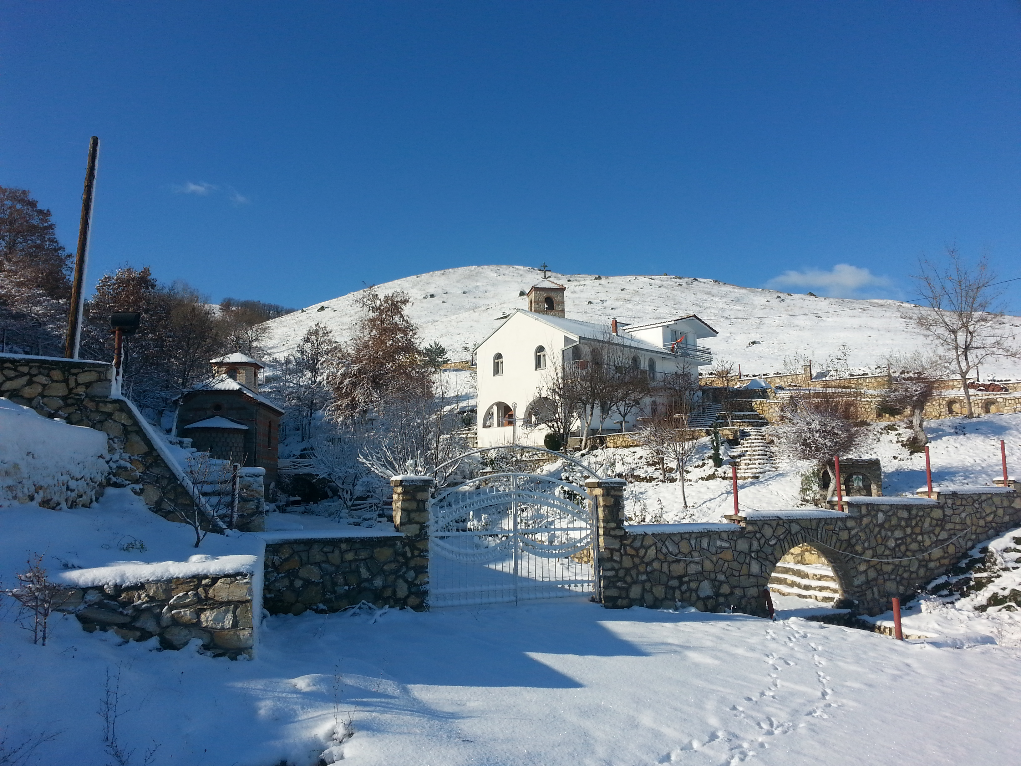 Мonastery of St. George and St. Cyril and Methodius – Loznani, Macedonia